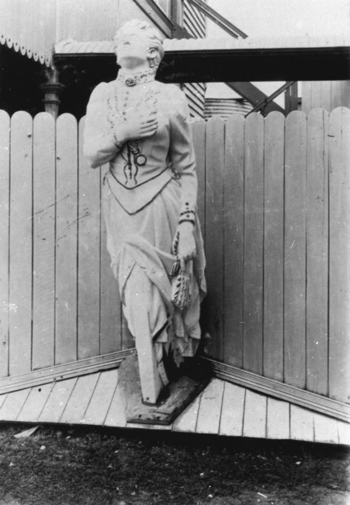 Figurehead of the Scottish Prince Figurehead of the wrecked ship, Scottish Prince at Southport, 1895. The carving was situated outside the Railway Hotel on Scarborough Street, Southport, Queensland. (Description supplied with photograph.).